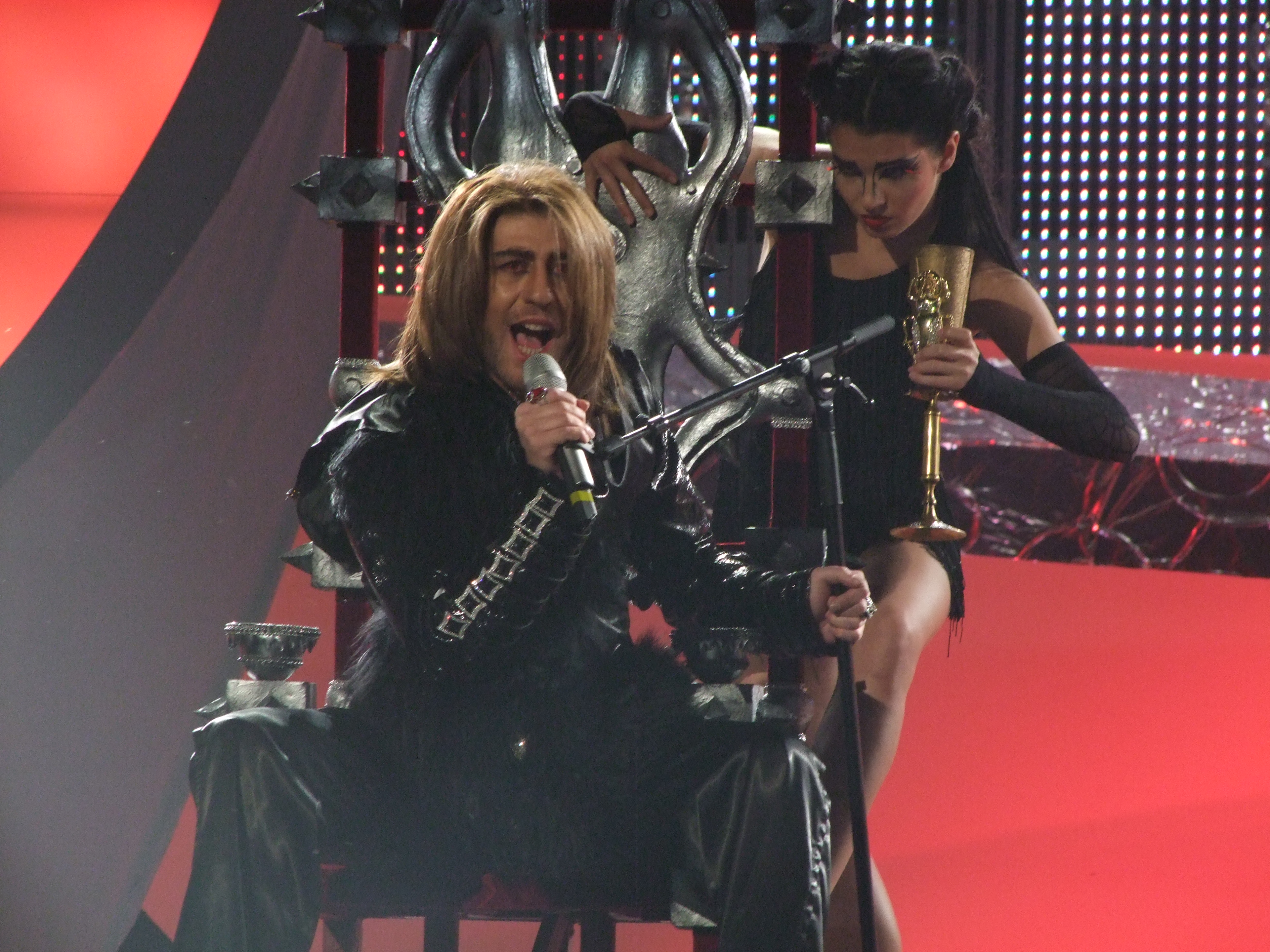 Eurovision Song Contest 2008, 1st semifinal Azerbaijan: Elnur & Samir - Day after day